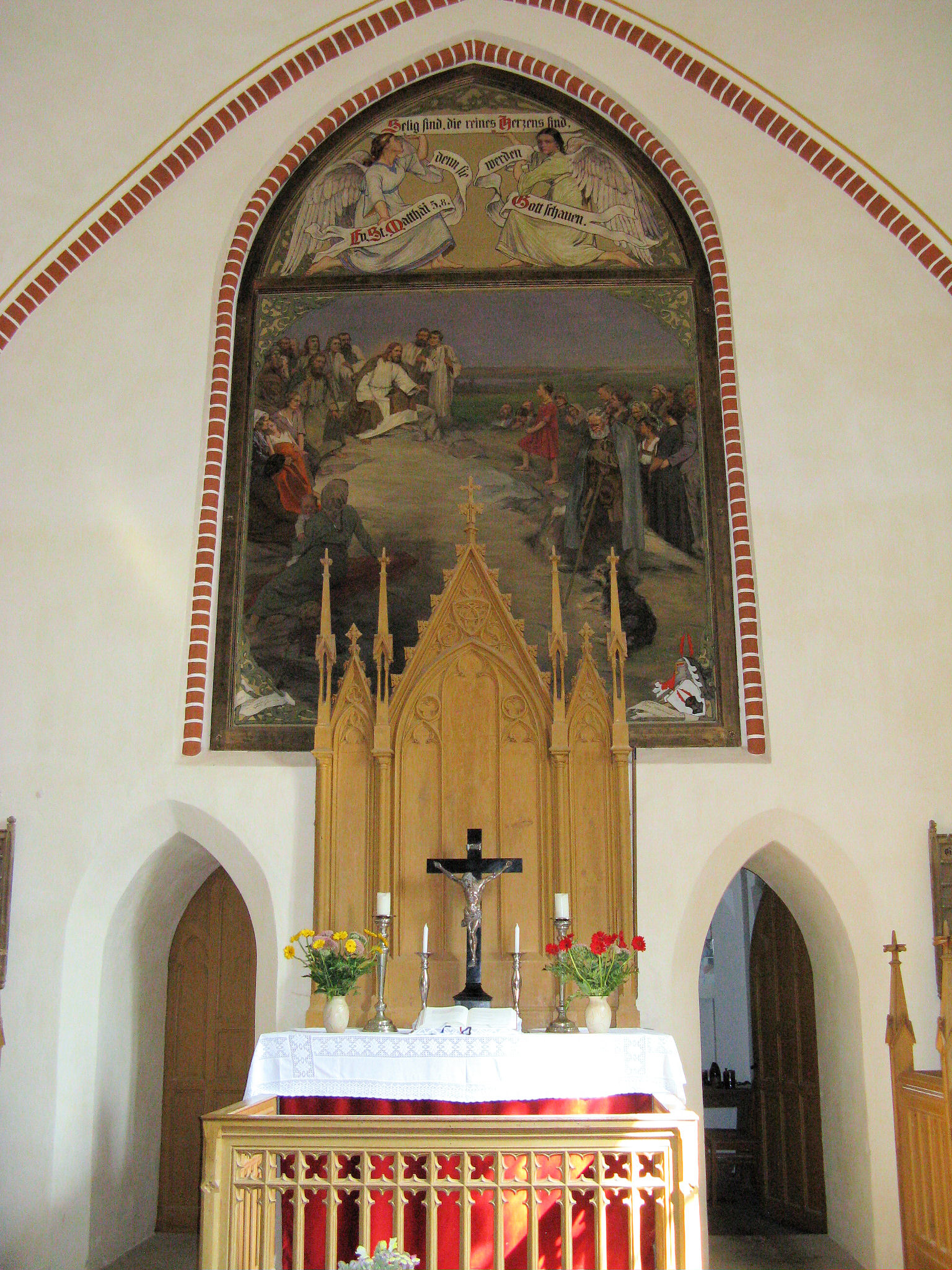 Altar in the church in Hohen Mistorf, disctrict Güstrow, Mecklenburg-Vorpommern, Germany